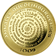 100 litas coin from the series dedicated to the millennium of the mention of the name of Lithuania Gold Au 999.9 Quality proof Diameter 22.30 mm Weight 7.78 g The words on the edge of the coin: MILLENNIUM OF THE NAME OF LITHUANIA Designed by Liudas Parulskis and Giedrius Paulauskis Mintage 5 000 pcs Issue 2007 Price 750 litas The coin was minted at the state enterprise Lithuanian Mint.